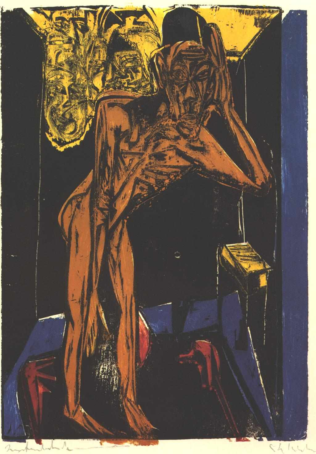 Schlemihls in the loneliness of the room